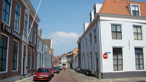 Buildings in Goes - Corner Nieuwstraat-Beestenmarkt